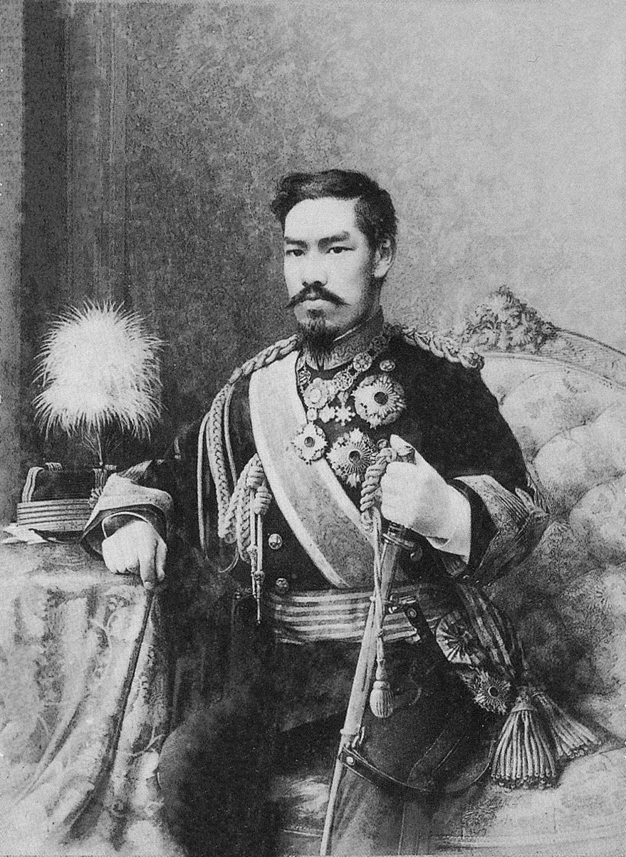 Conté portrait of the Emperor Meiji, drawn by Chiossone during his employment by the Imperial Printing Bureau: Chiossone was ordered to covertly sketch the emperor and create the final portrait from those sketches. The completed work was then photographed and distributed under the tacit approval of the Emperor to foreign governments and Japanese schools.[1][2] The realism of the drawing was such that many mistook the portrait for an actual photograph.[1][3]